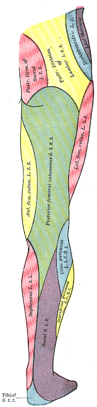 Diagram of the segmental distribution of the cutaneous nerves of the right lower extremity. Posterior view.